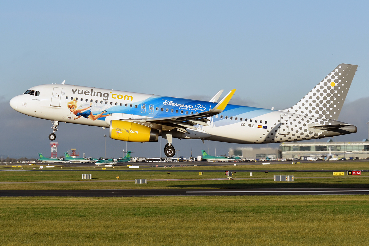 Vueling (Disneyland Paris - 25 Years Livery), EC-MLE, Airbus A320-232